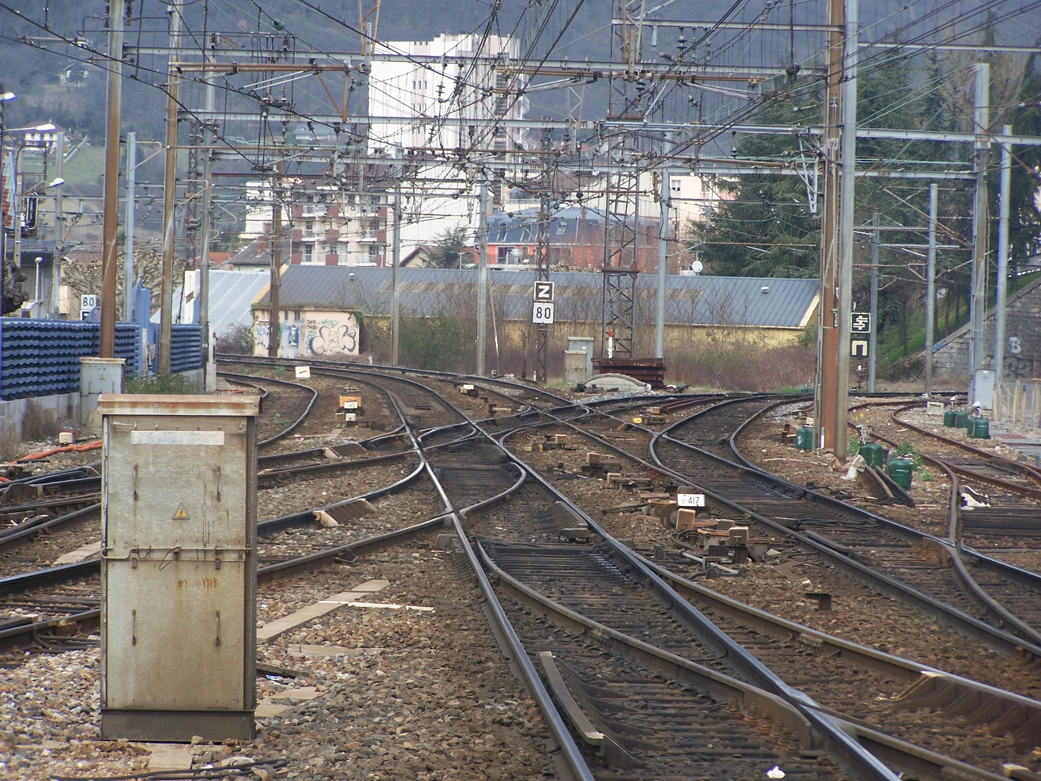 Divergence of the lines to Lyon (left) and Annecy (right) at the northern exit of Aix-les-Bains railway station in Savoie, France.